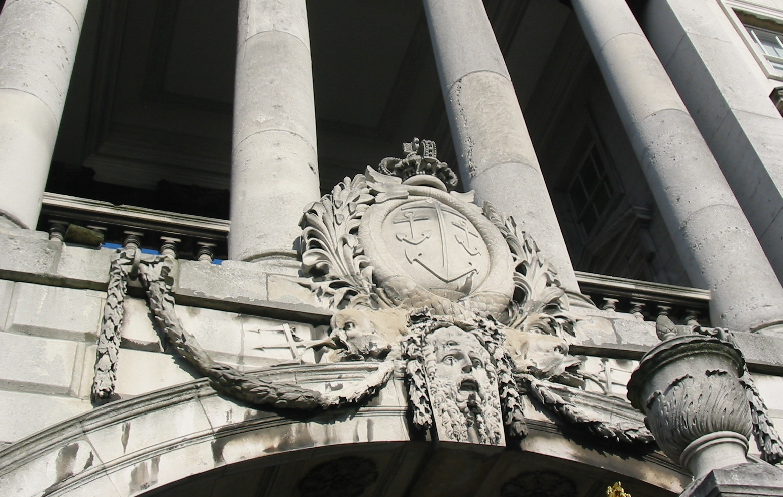 London